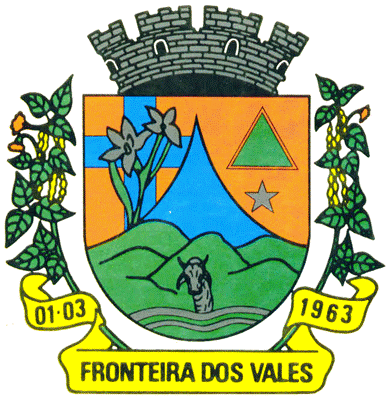 Flag of Fronteira dos Vales, Minas Gerais, Brazil.